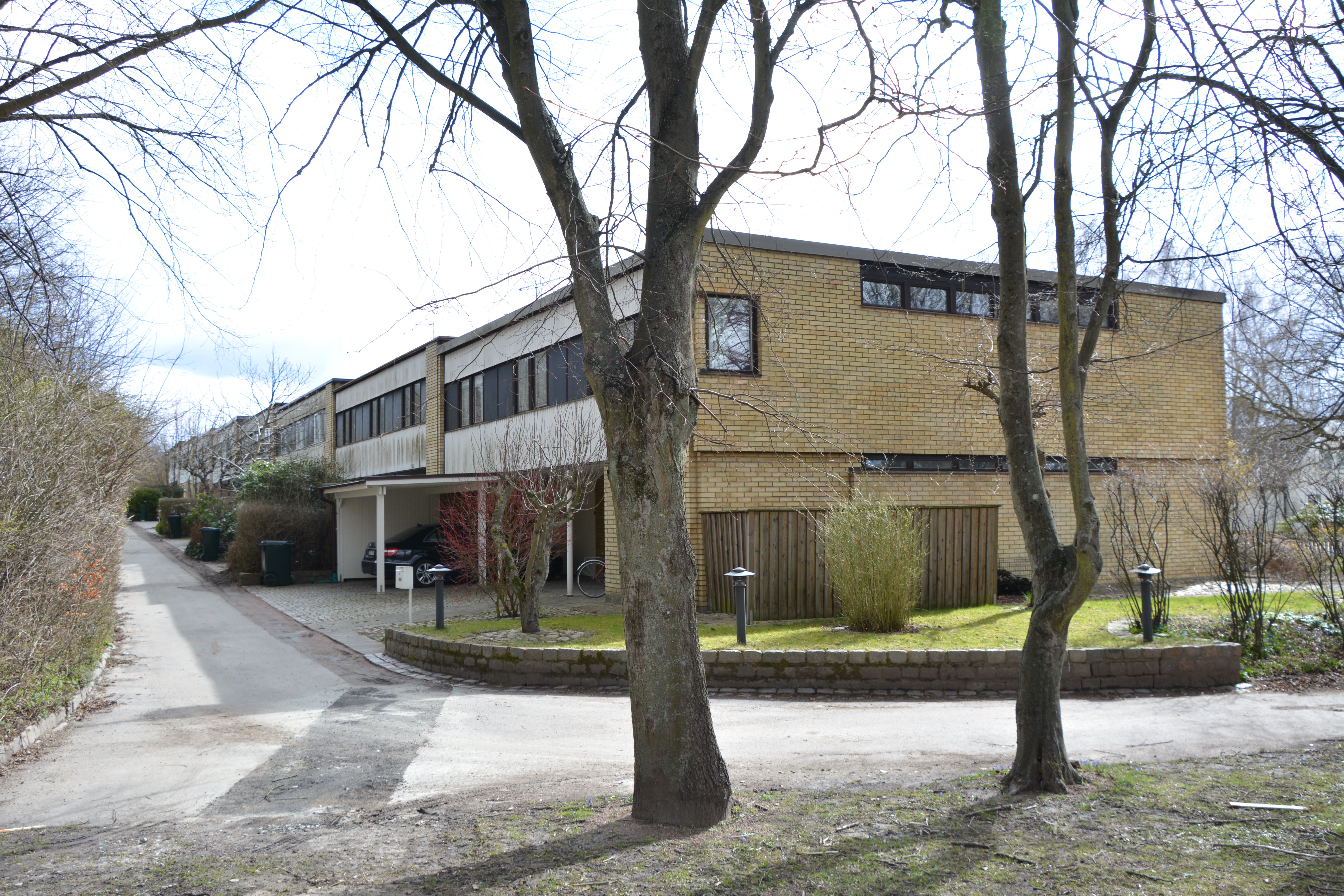 Radhus på Galjrevågen av Bernt Nyberg